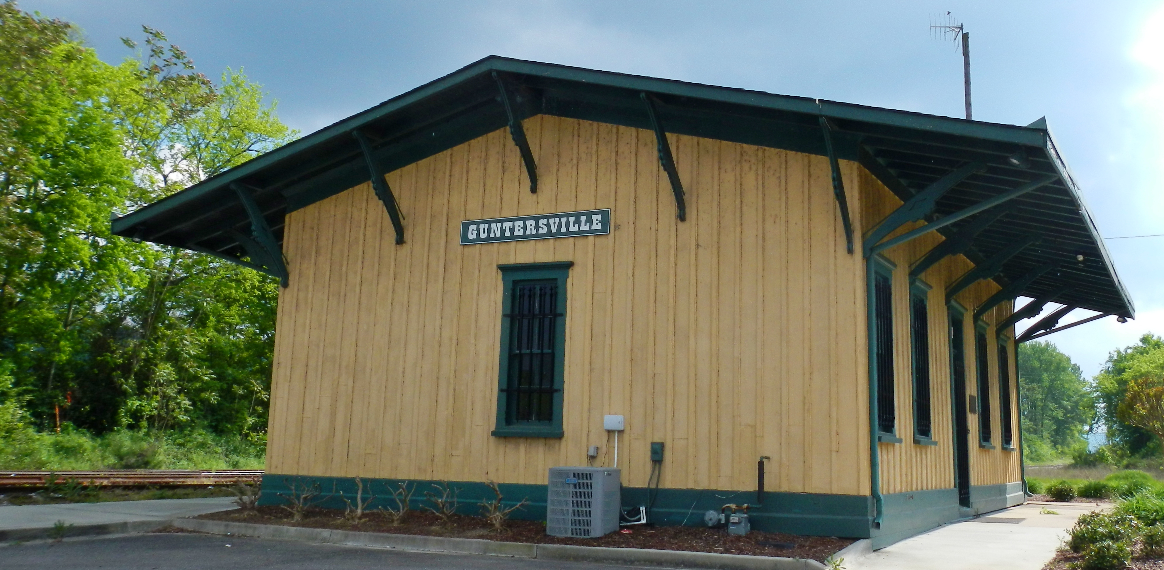 This is a photo of the Guntersville Railroad Depot Museum, a newly renovated depot with miniature train display, plus memorabilia from years past.